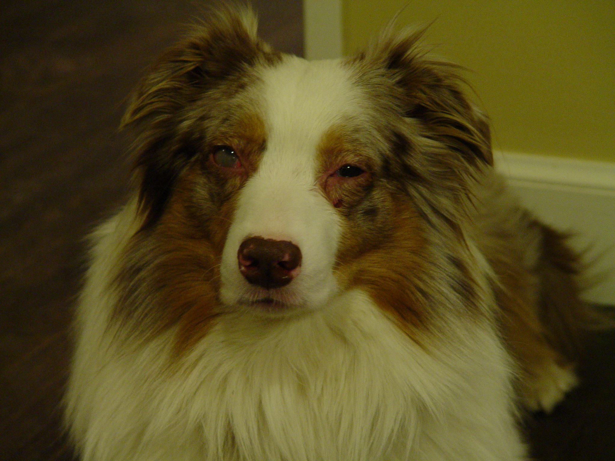 Australian Shepherd shortly before death from histoplasmosis. Right eye blinded and clearly affected, left eye affected as well at this point, dog has lost energy. Series